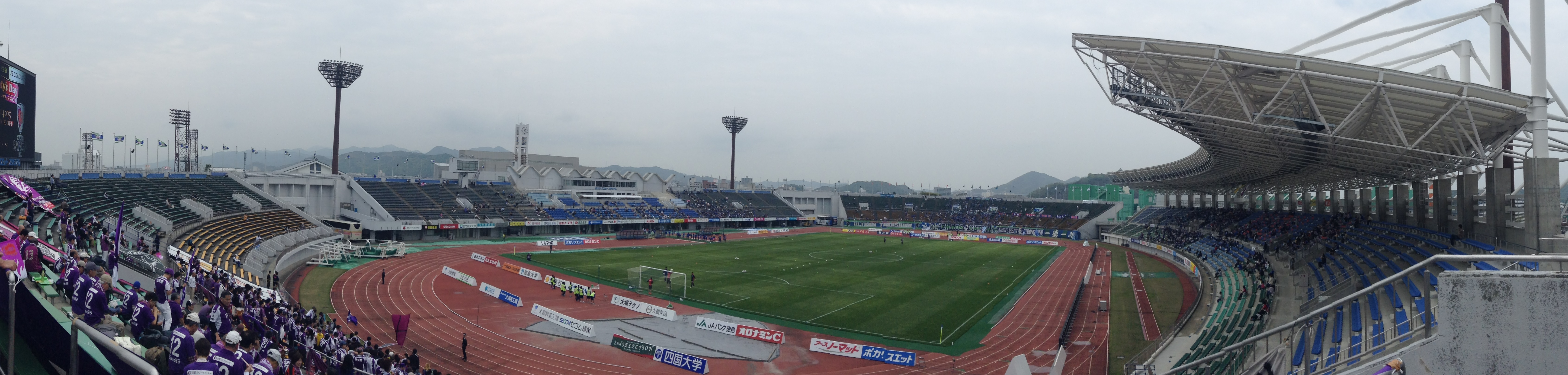 The panoramic photograph of Naruto Athletic Stadium(a.k.a Naruto-Otsuka Sports Park POCARISWEAT Stadium). J2. League ,Tokushima Vortis vs Kyoto Sanga F.C., 19 April, 2015